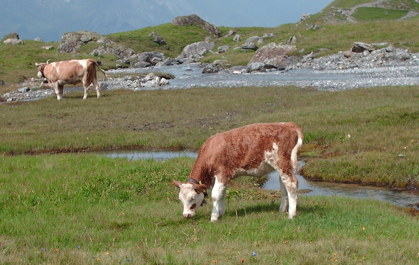 Simmental calf grazing on Engstligenalp